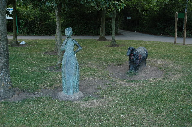 Bronze Statues, Birchwood Forest Park, Warrington. Not too sure who these two characters are... a lady and her faithful sheep. They live in Birchwood Forest Park, Birchwood, Warrington.